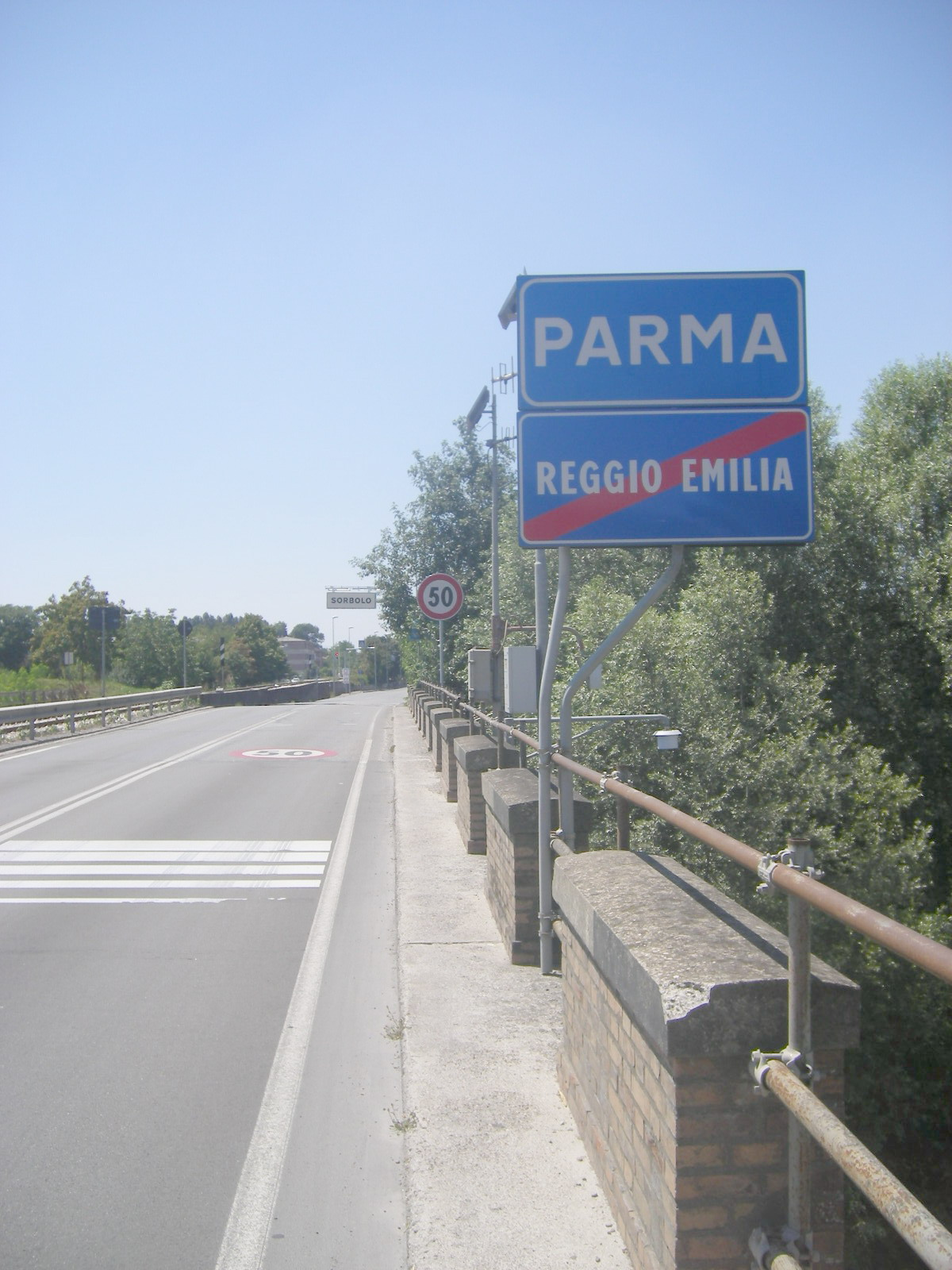 Border between Parma and Reggio province at Sorbolo